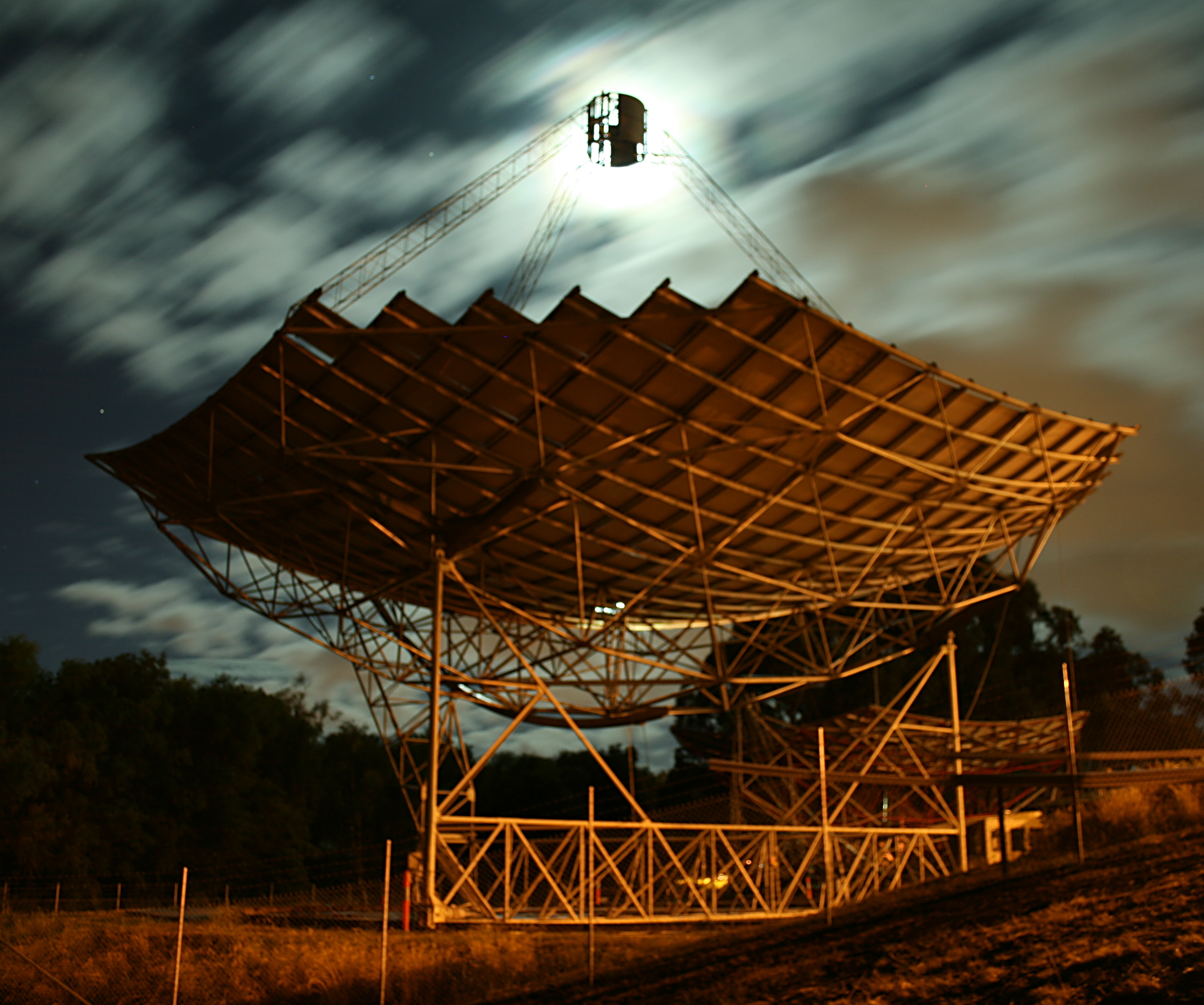 Night exposure of a paraboloidal solar concentrator located at the Australian National University. The moon is behind the focus and is illuminating fast moving clouds.